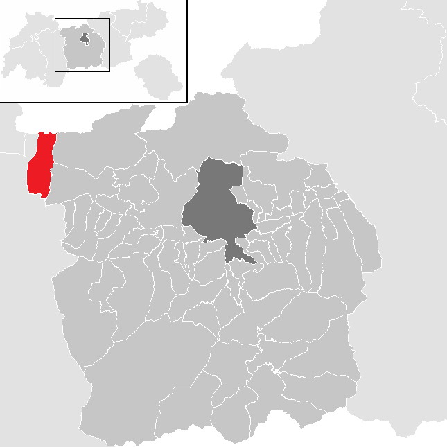 District Innsbruck Land